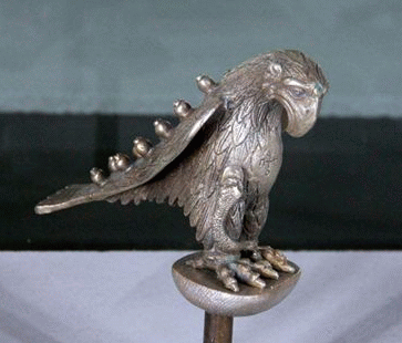 Eagle from Voznesenka treasure (probably VII AD).